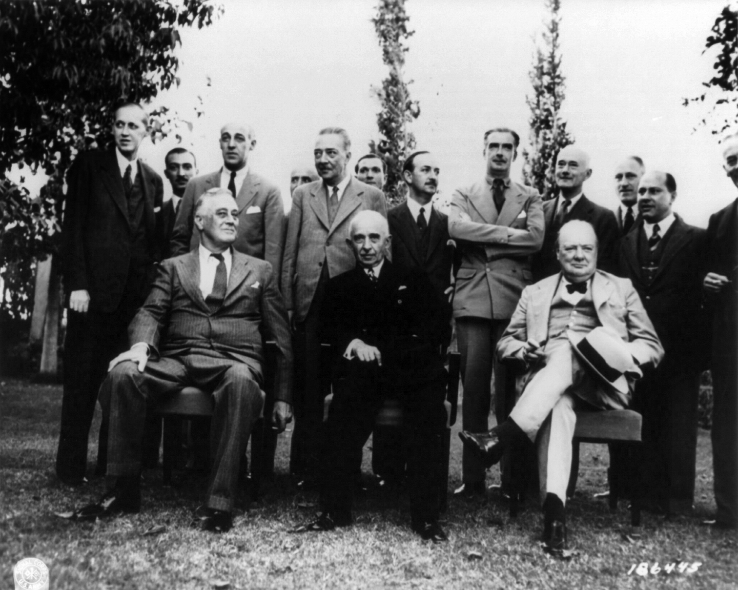 The President of Turkey confers with President Roosevelt and Prime Minister Churchill at Cairo. President Roosevelt, President Inönü, Prime Minister Winston Churchill, and aides, including Anthony Eden.